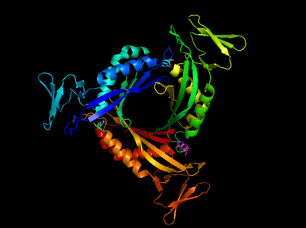 Image of pymol image of the PTPS enzyme obtained from the 1y13 file from RCSB